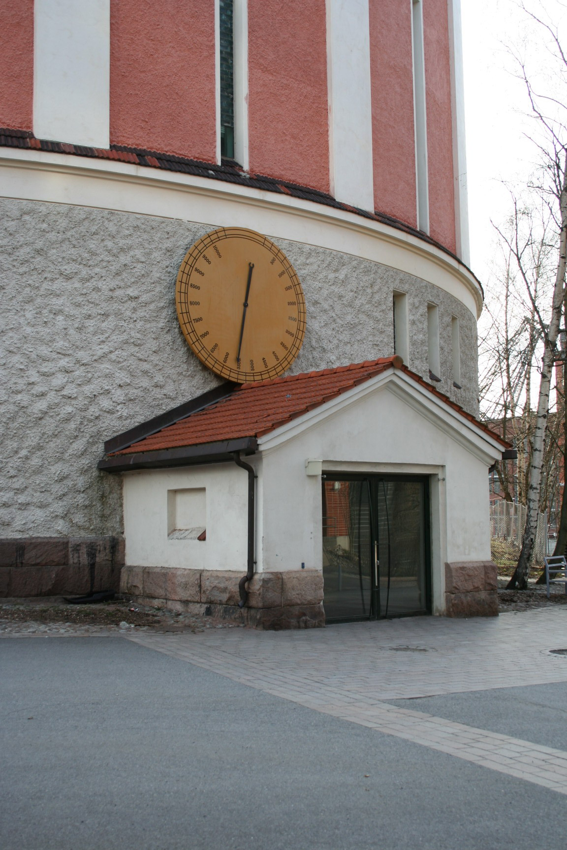 Gasometer in Turku, Finland. Main entrance and gas indicator.